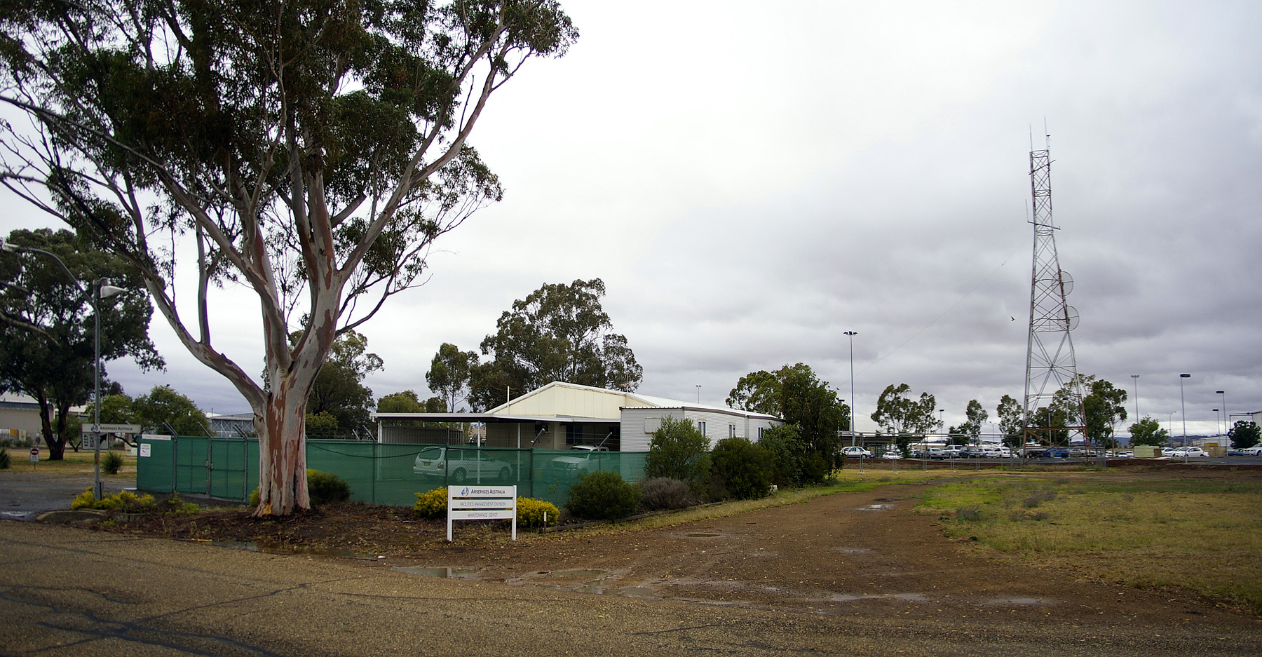 Airservices Australia Routes Management and Maintenance Depot.